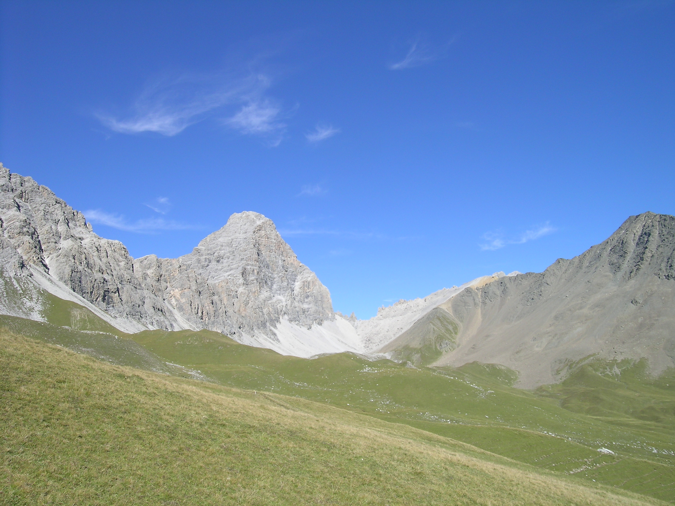 Tinzenhorn, Savognin, Filisur, Grisons, Switzerland